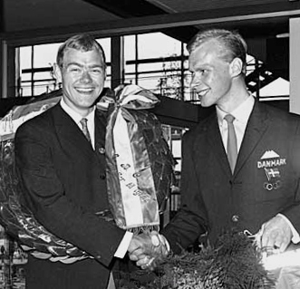 Cyclists Kjeld Rodian (left) and Preben Isaksson return home from the 1964 Olympics